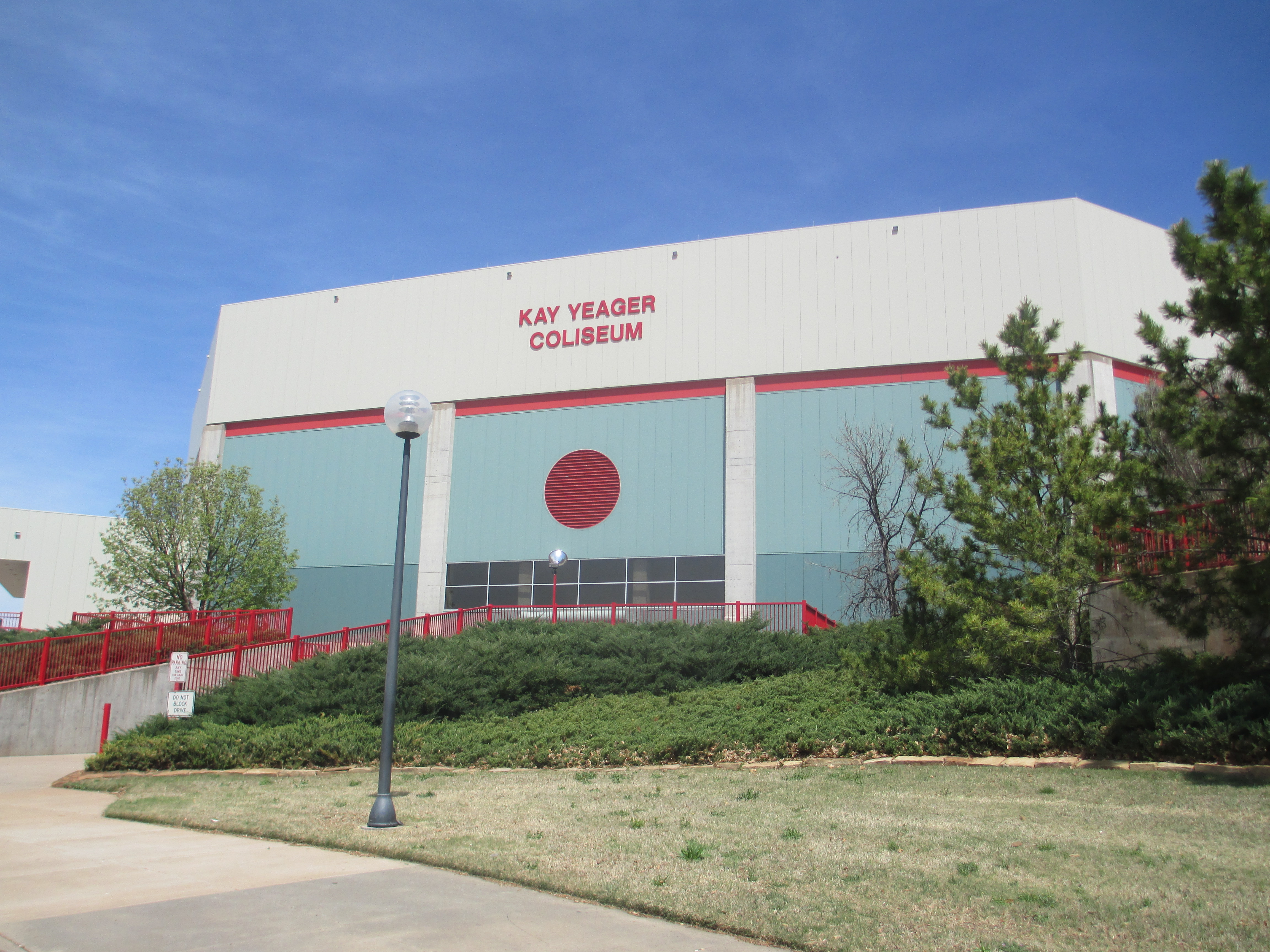 I took photo of Kay Yeager Coliseum in Wichita Falls, TX, with Canon camera, April 5, 2013. Billy Hathorn (talk) 11:43, 10 April 2013 (UTC)